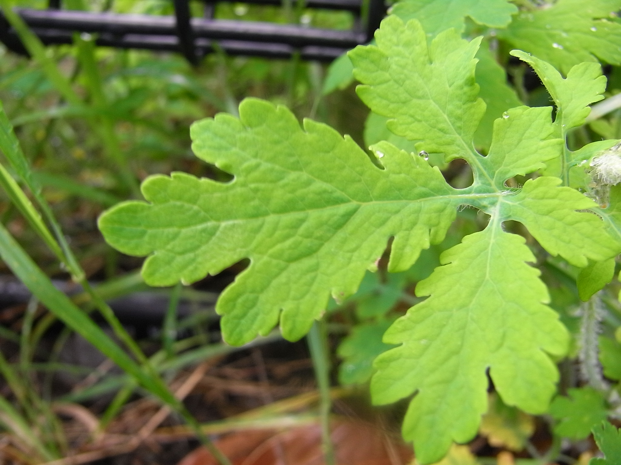 Leaf of greater celandine. Chelidonium majus, var. asiaticum. At the Katahira Campus of Tōhoku University. Katahira 2 chōme, Aoba ward, Sendai, Miyagi prefecture, Japan.